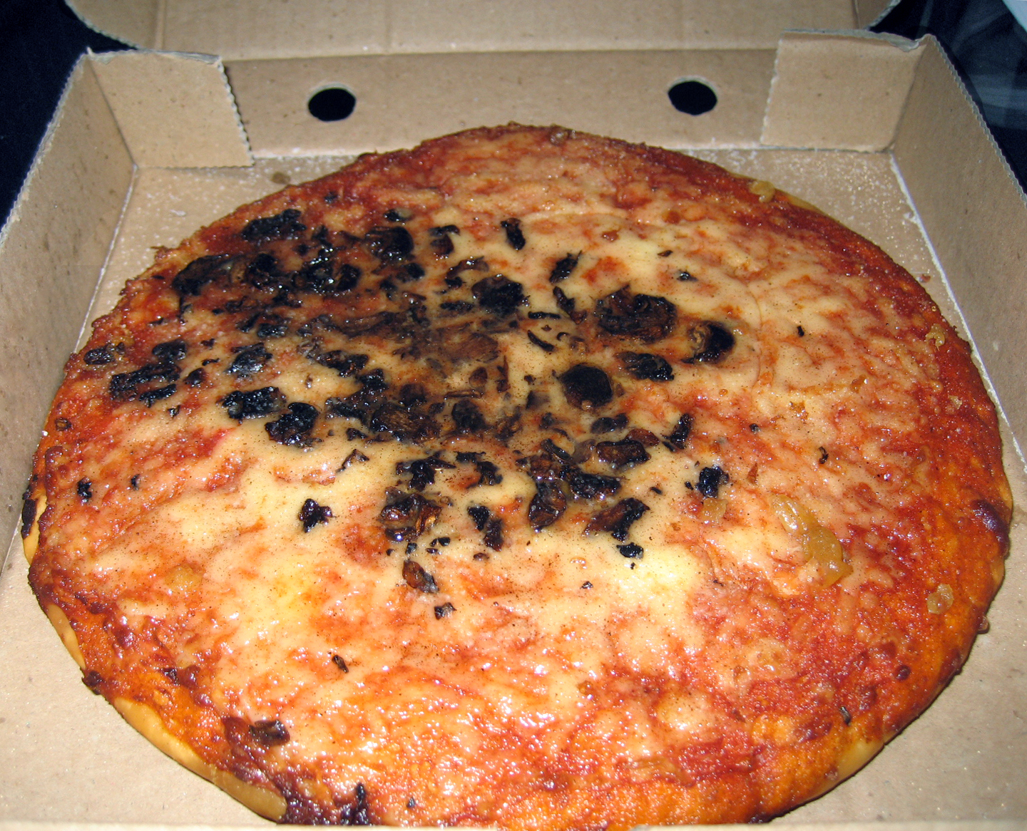 Self taken image of a deep fried pizza.